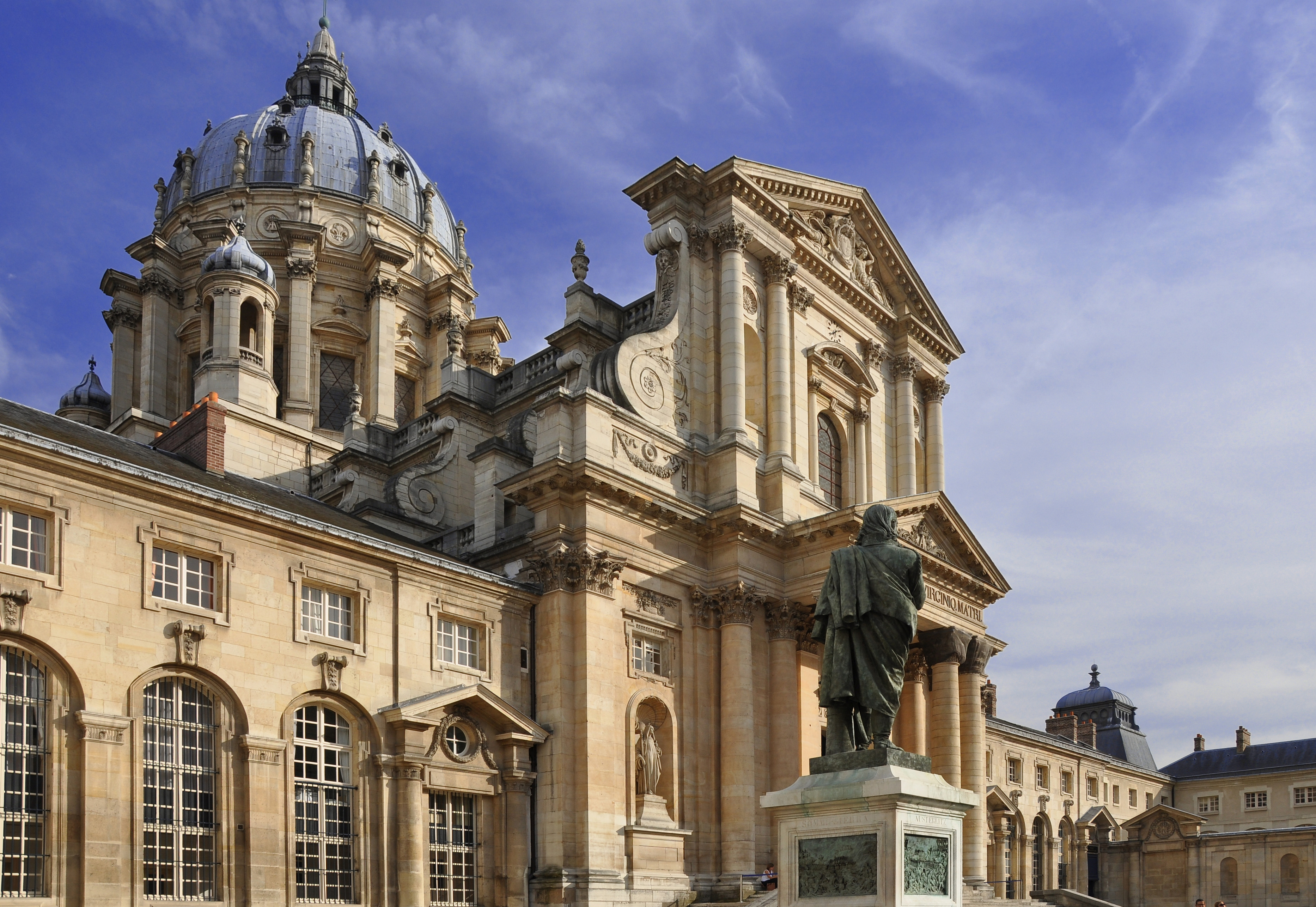 Exterior of the church of Val-de-Grâce in the 5th arrondissement of Paris in France.